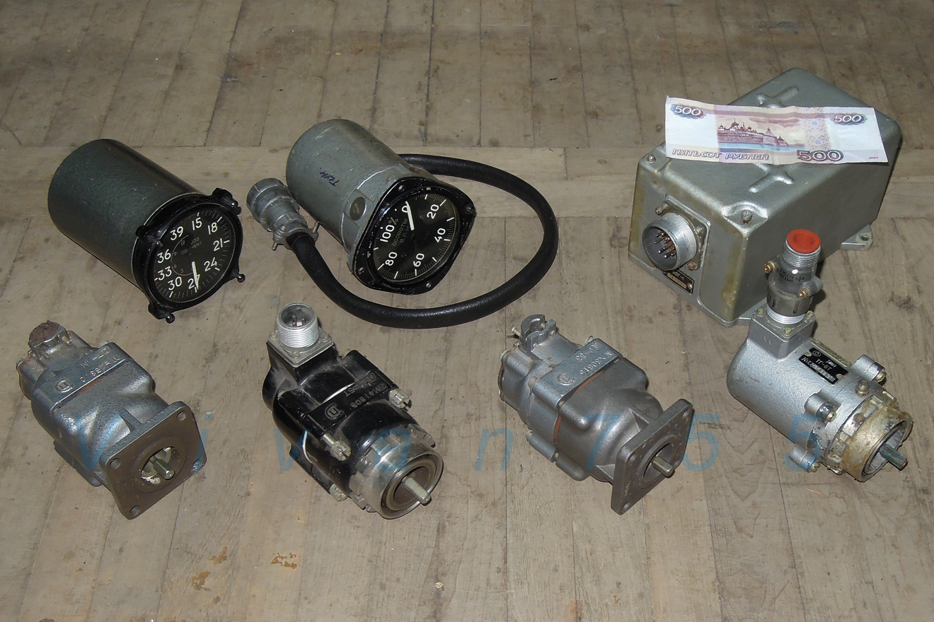 Tachometers and sensors of russian aircraft